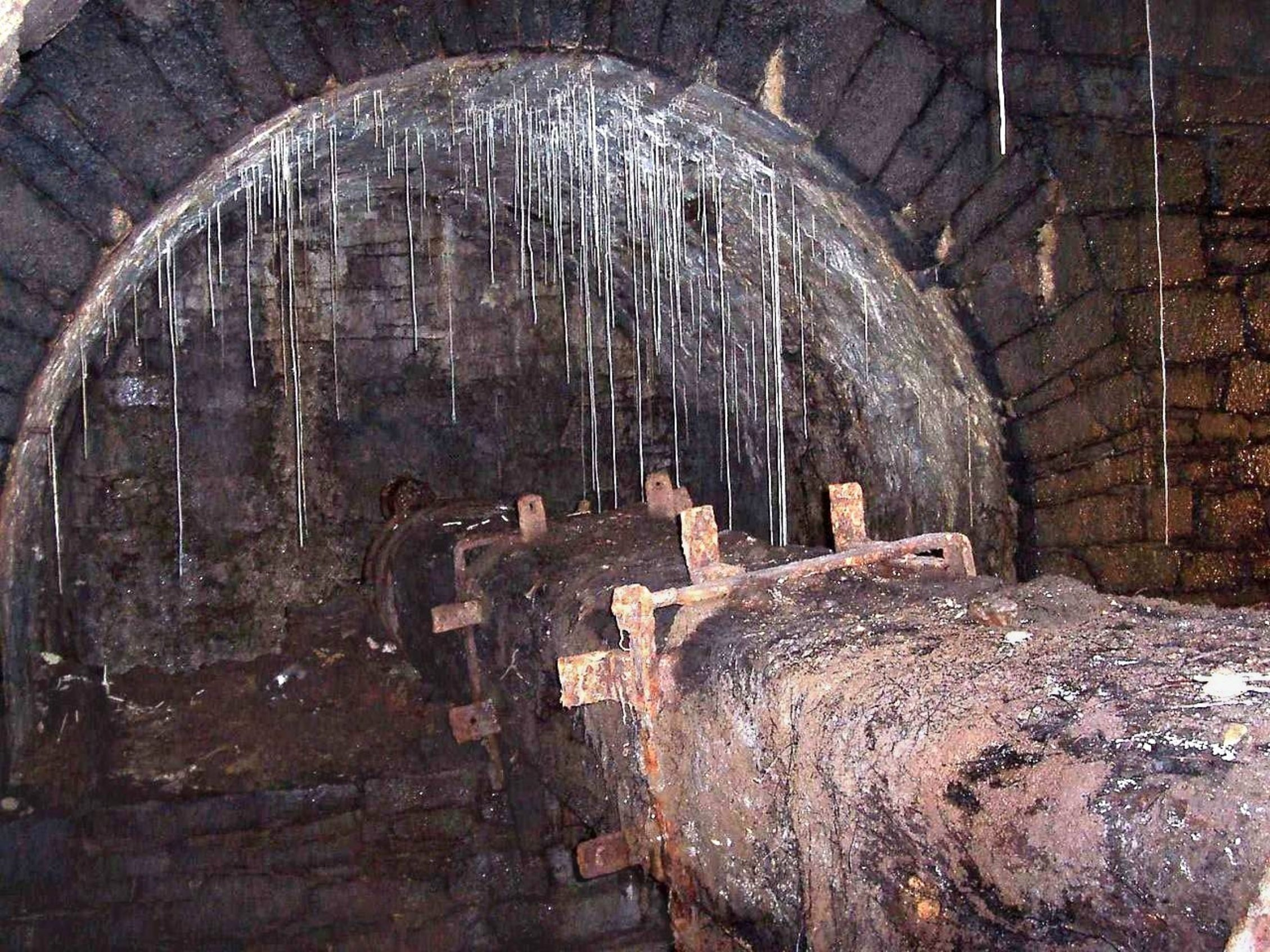 Axle of an underground water wheel used to power pumps. St. Wolfgang and Maaßen mine, Schneeberg, Ore Mountains, Saxony, Germany.